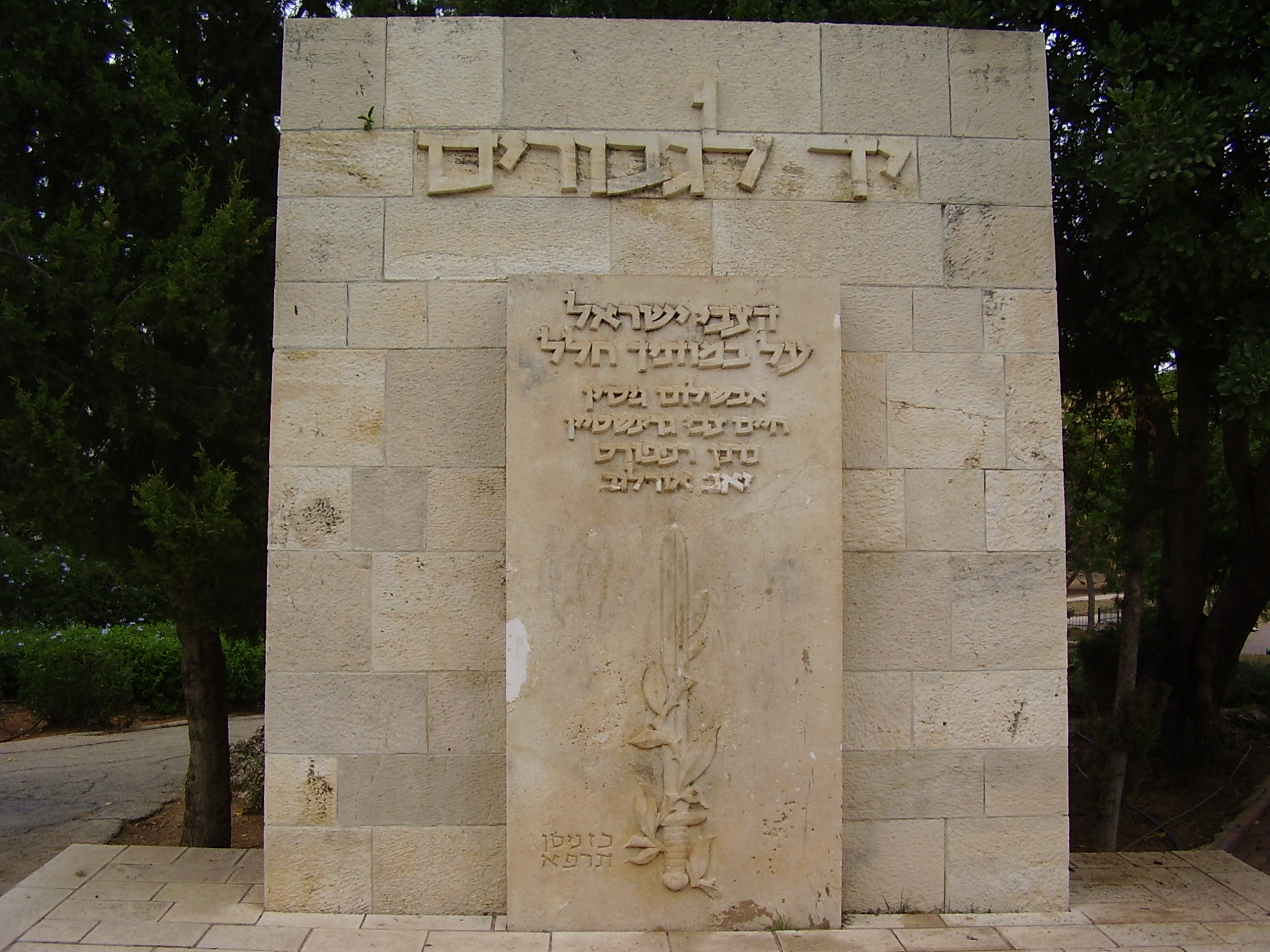 memorial in petakh tikva to the defenders who fell in 1921 arabs attack on petakh tikva